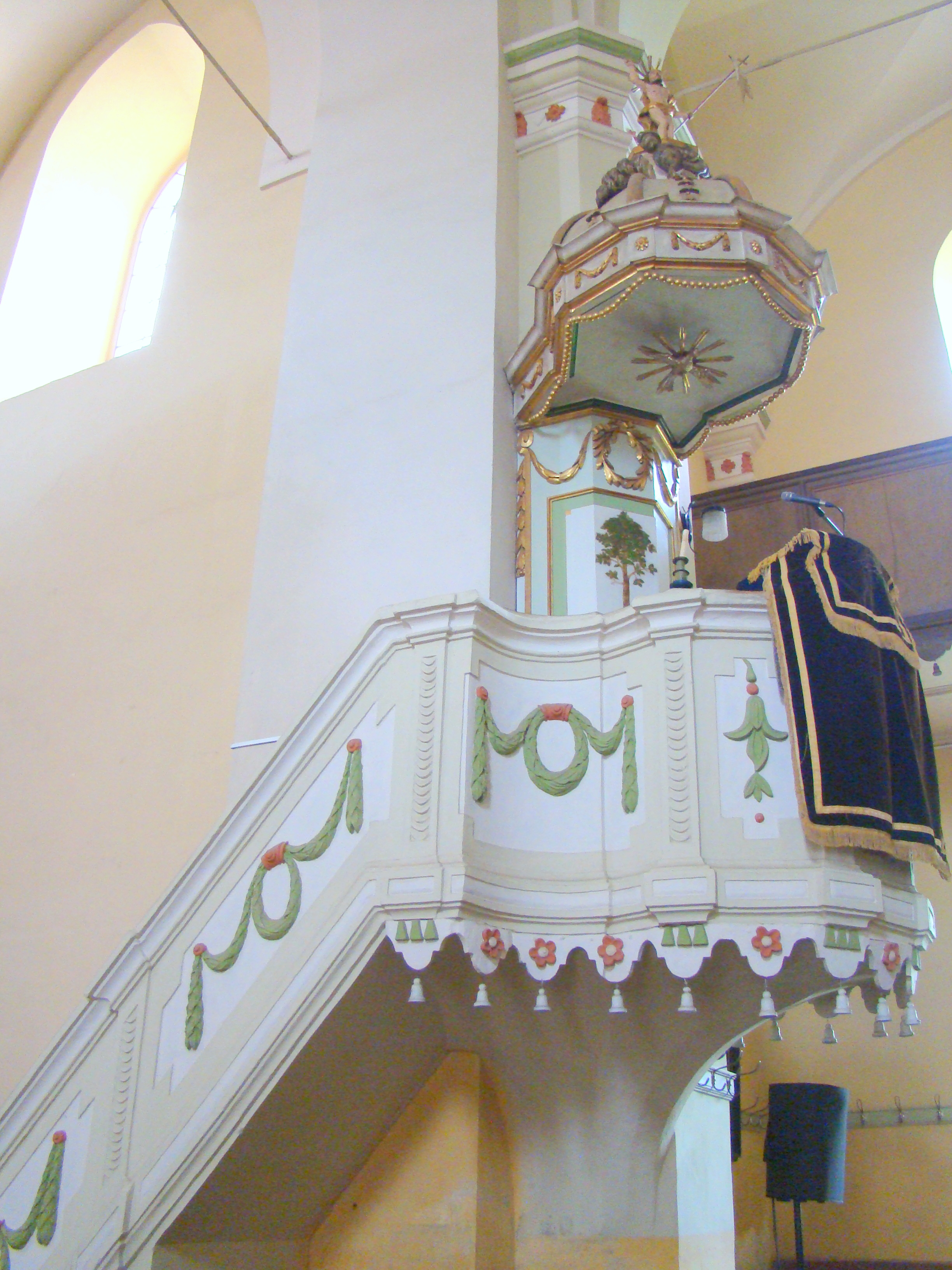 Lutheran church in Hălchiu, Brașov County, Romania